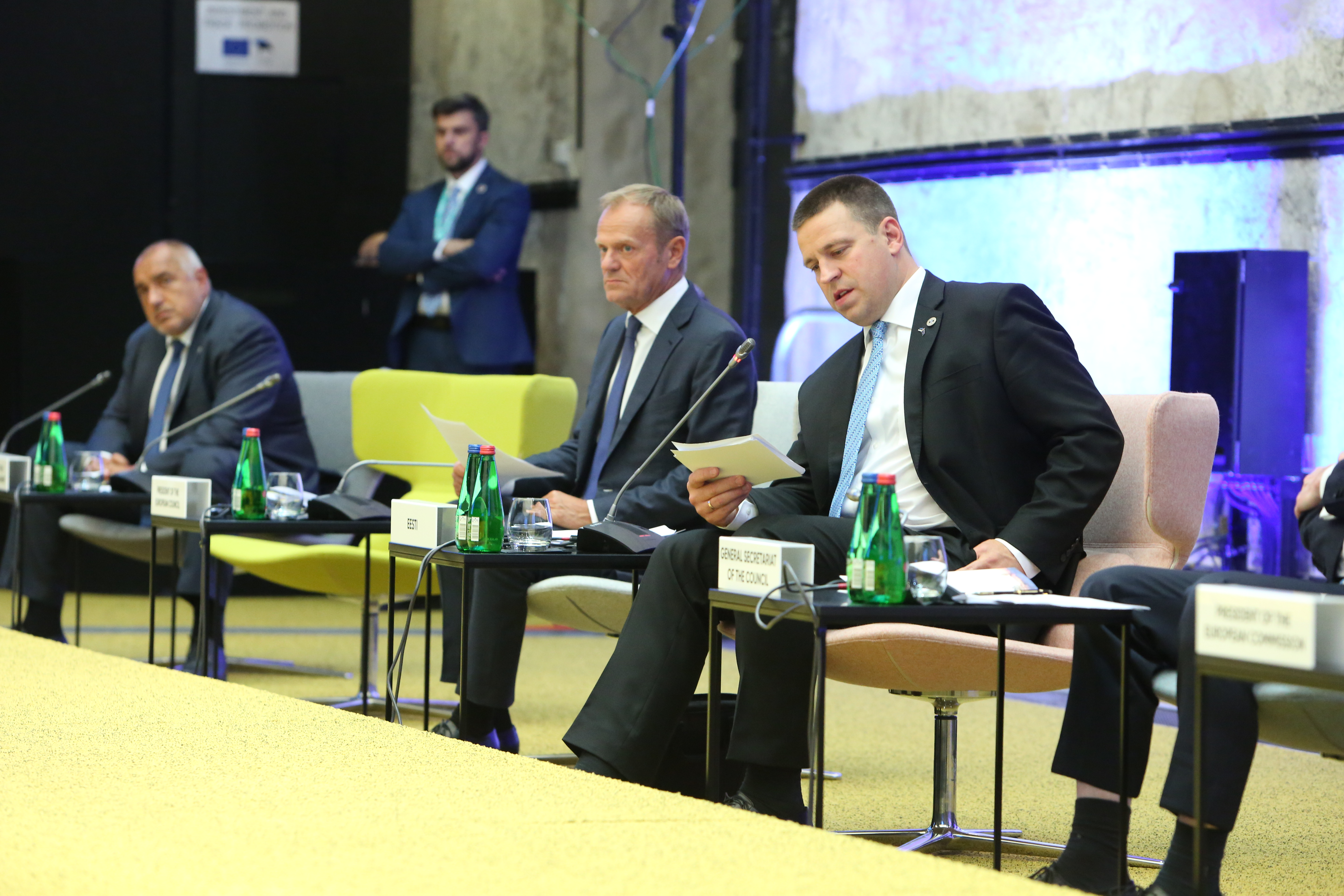 (l-r) Boyko Borissov, Prime Minister, Bulgaria; Donald Tusk, President, European Council; Jüri Ratas, Prime Minister, Estonia Photo: Annika Haas (EU2017EE)